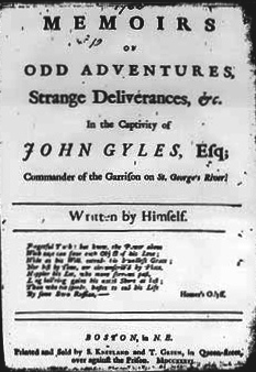 Memoirs of odd adventures, strange deliverances, &c. in the captivity of John Gyles, Esq; commander of the garrison on St. George's River. Written by himself. By John Gyles Boston, in N.E. : Printed and sold by S. Kneeland and T. Green, in Queen-Street, over against the prison, 1736.